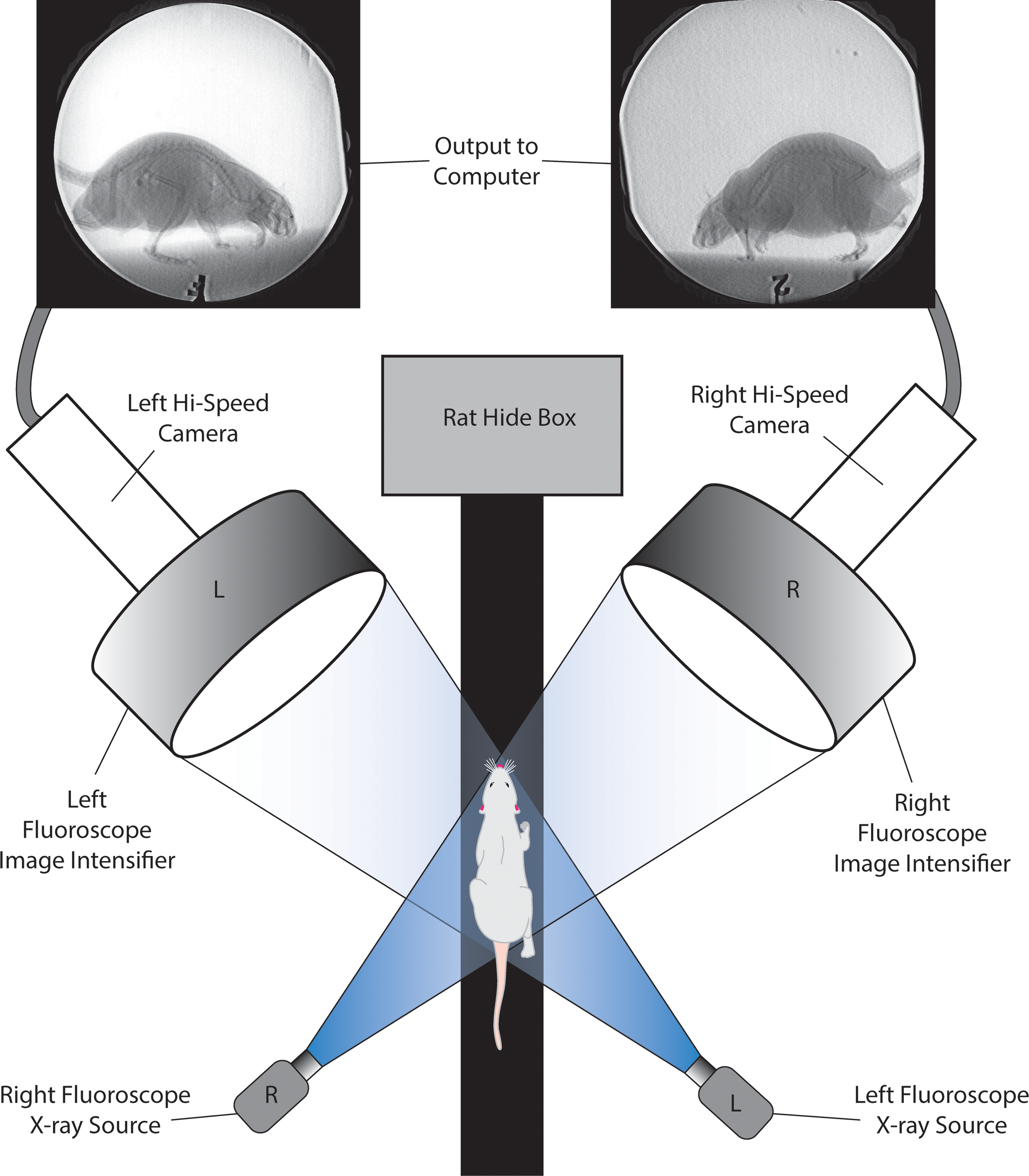 Biplanar fluoroscopy system capturing skeletal movements of walking rat.